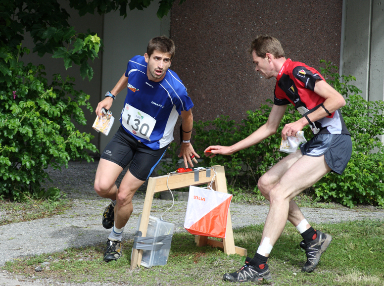 Sprint orienteering world cup race at Salo, Finland. They are Alessio Tenani (Ita) and Fabien Pasquasy (Bel)